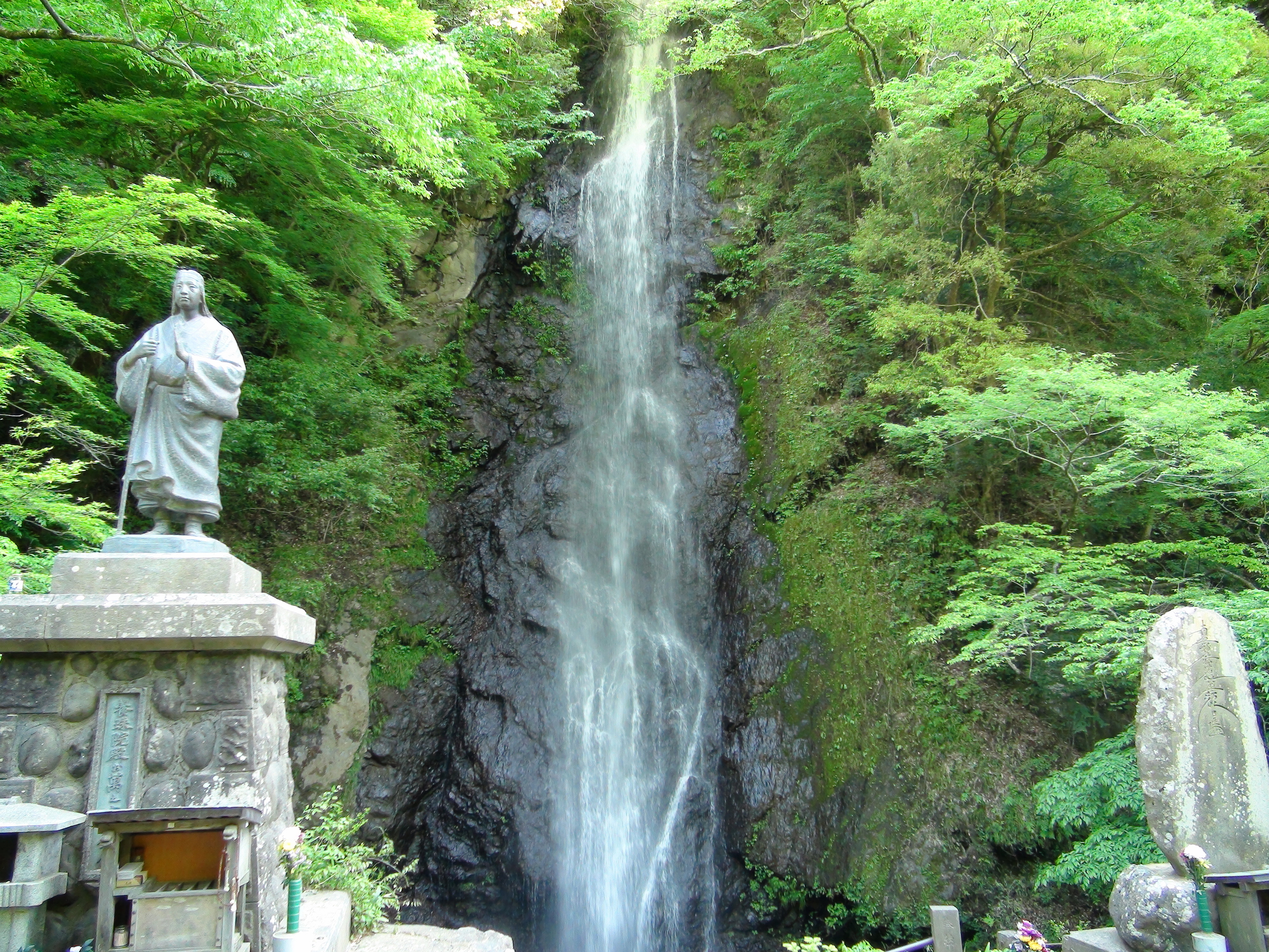 Shiraito waterfall in the foot of the Mt.Shichimen-san